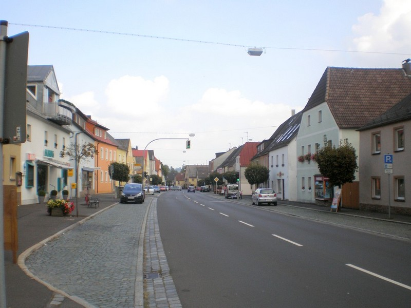 Waldershof, Bavaria, Germany